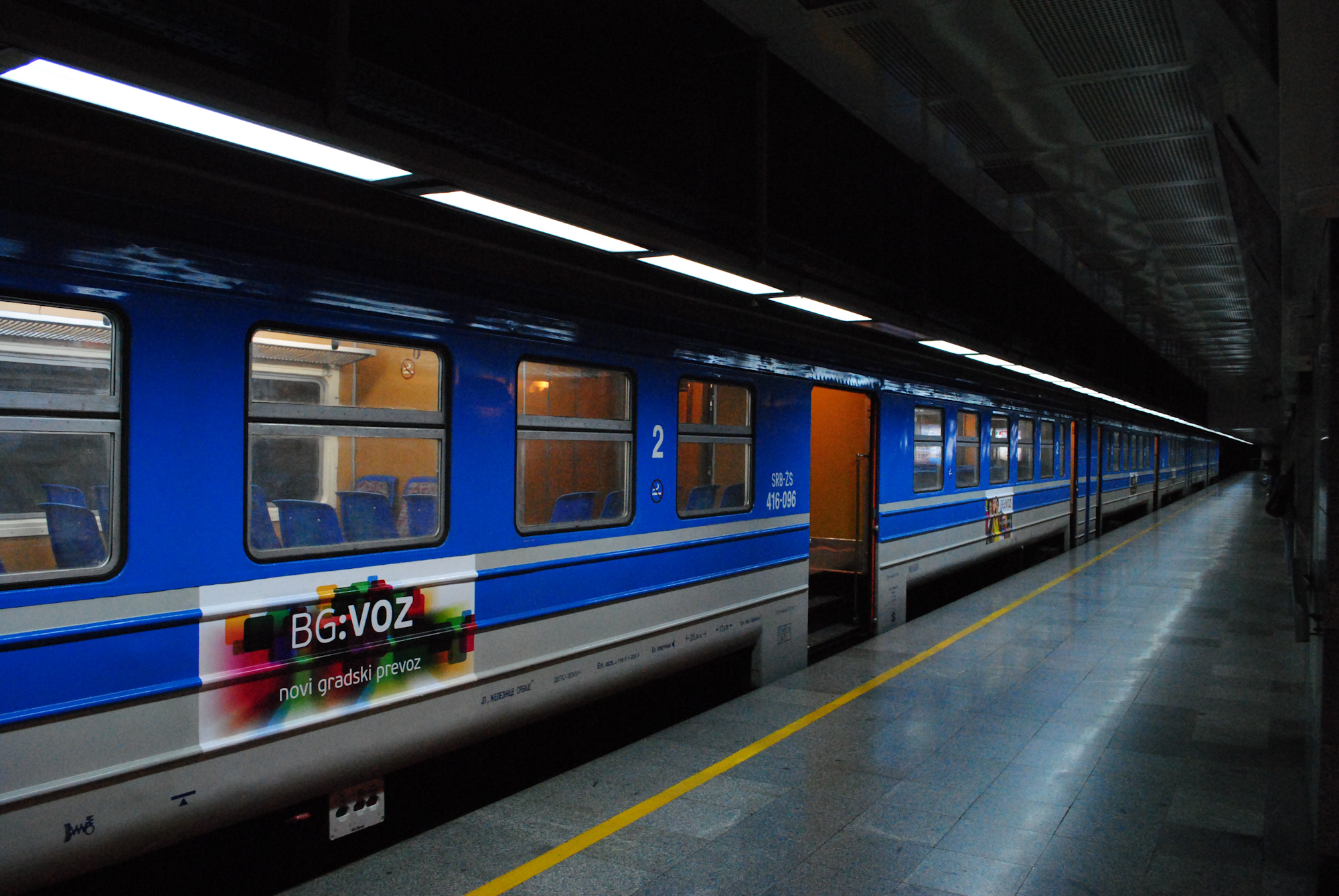 BG:Voz - Belgrade commuter railway Passenger wagon 416-096. In 2019 this carriage appeared in the 2019-remake music video for "Freestyler".